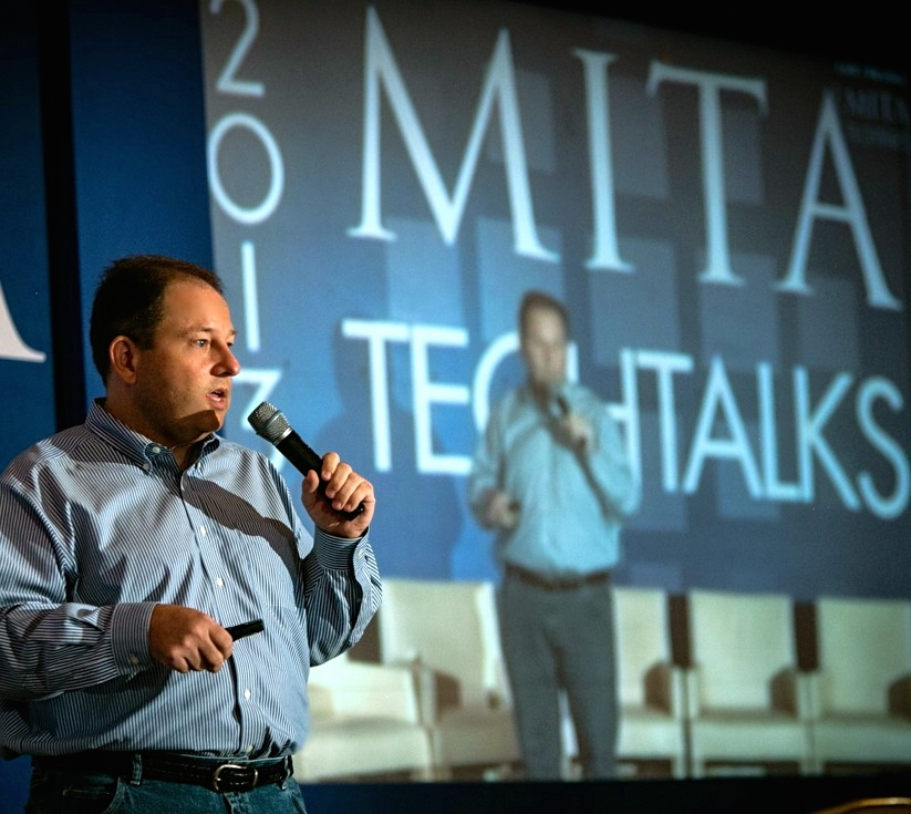 Wendell Brown Giving Keynote Address at the Mita Tech Talks in Punta Mita, Mexico, November 2013